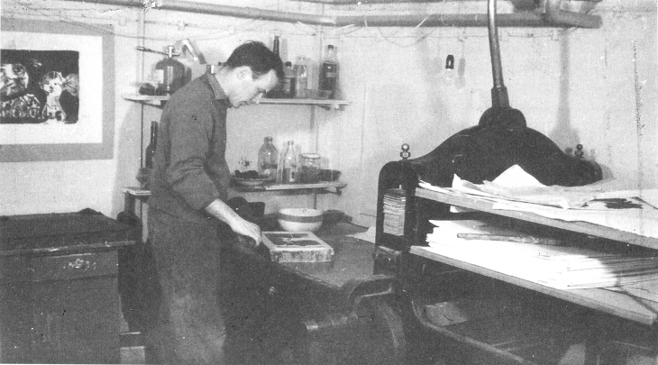 Photograph of the Finnish artist Antti Nieminen (1924–2007) at work.